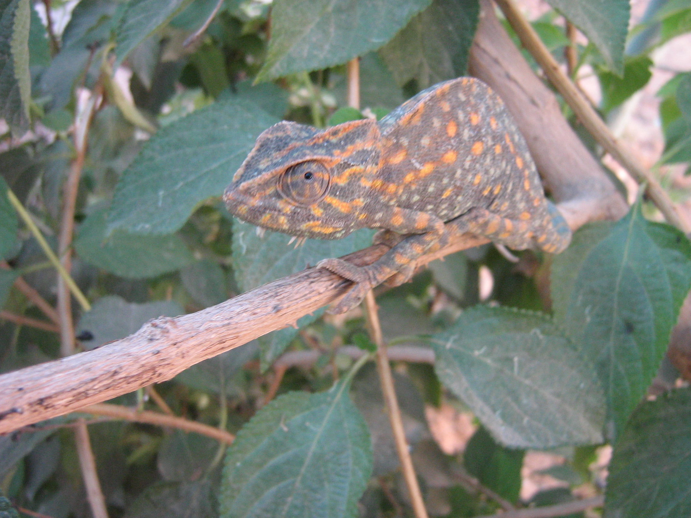 Chameleon. Tripolitania. Libya.